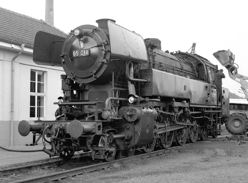 Deutsche Bundesbahn steam locomotive DB Class 65 visiting Bochum-Dahlhausen Railway Museum in Germany.